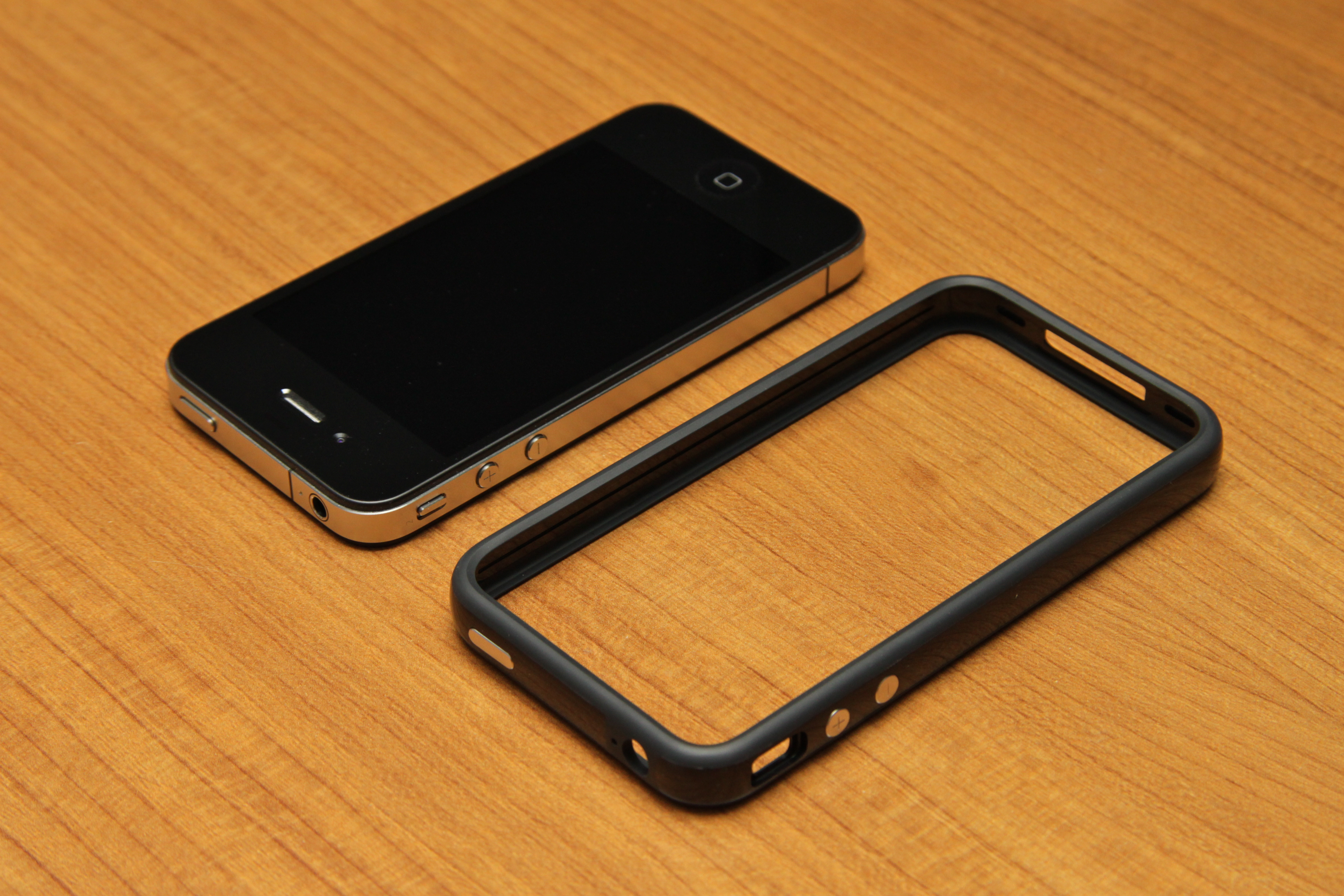 The iPhone 4 Bumper with a iPhone 4 (32 GB)